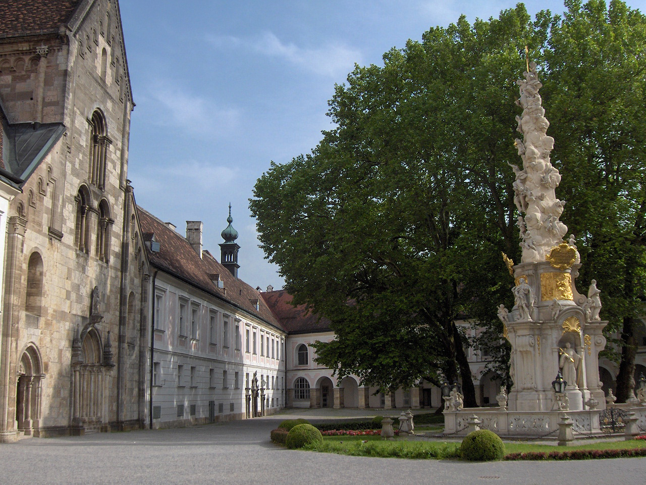 Trinity column and church at the Heiligenkreuz Abbey near Baden bei Wien, Lower Austria